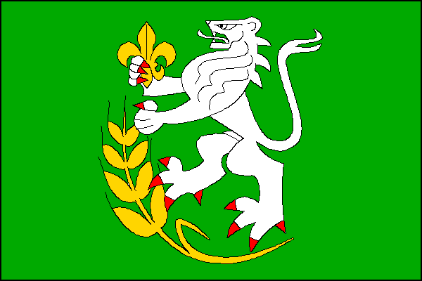 Municipal flag of Polerady , District Prague East, Czech Republic